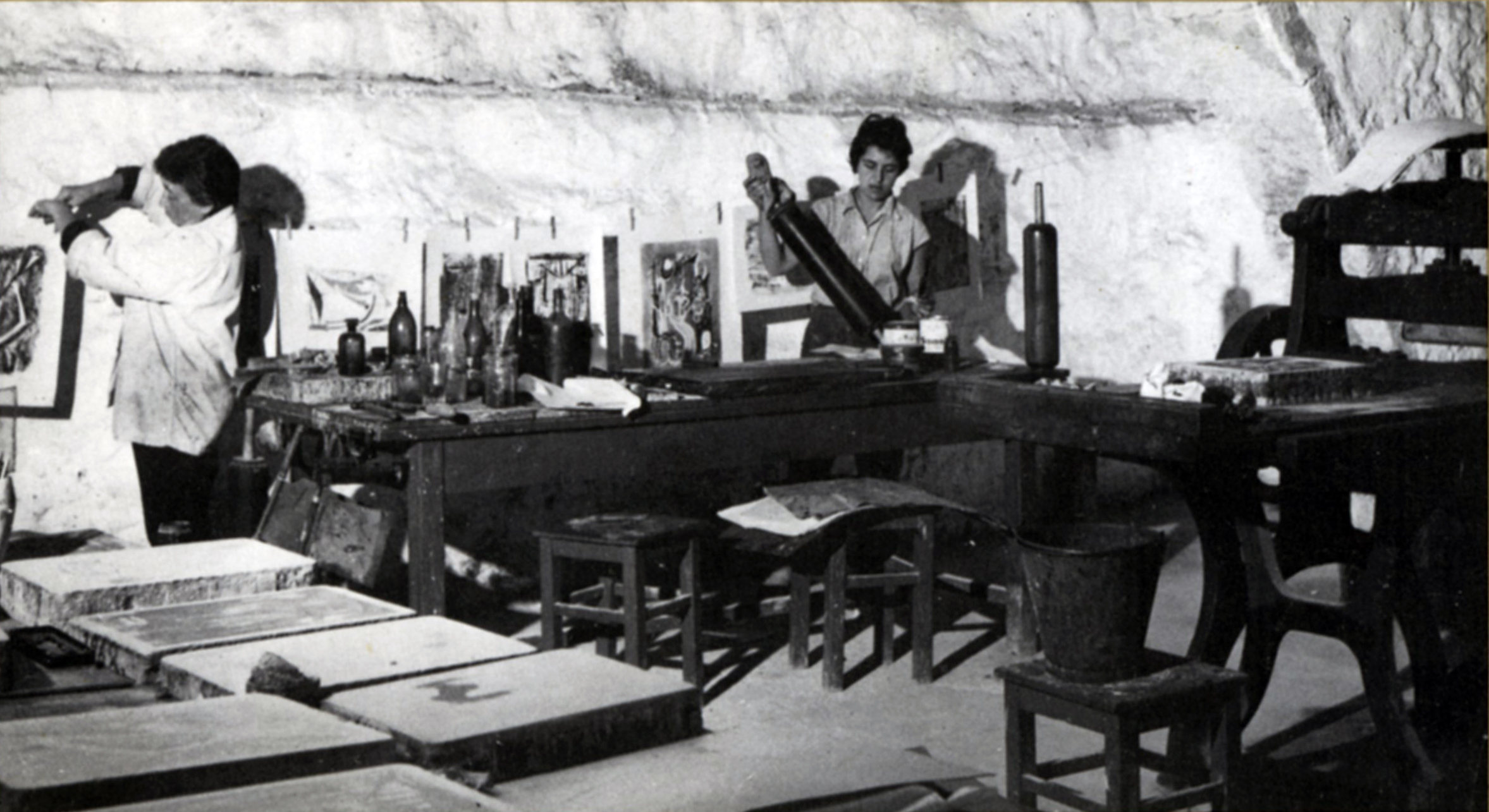 Ein Hod Lithography Workshop, 1960